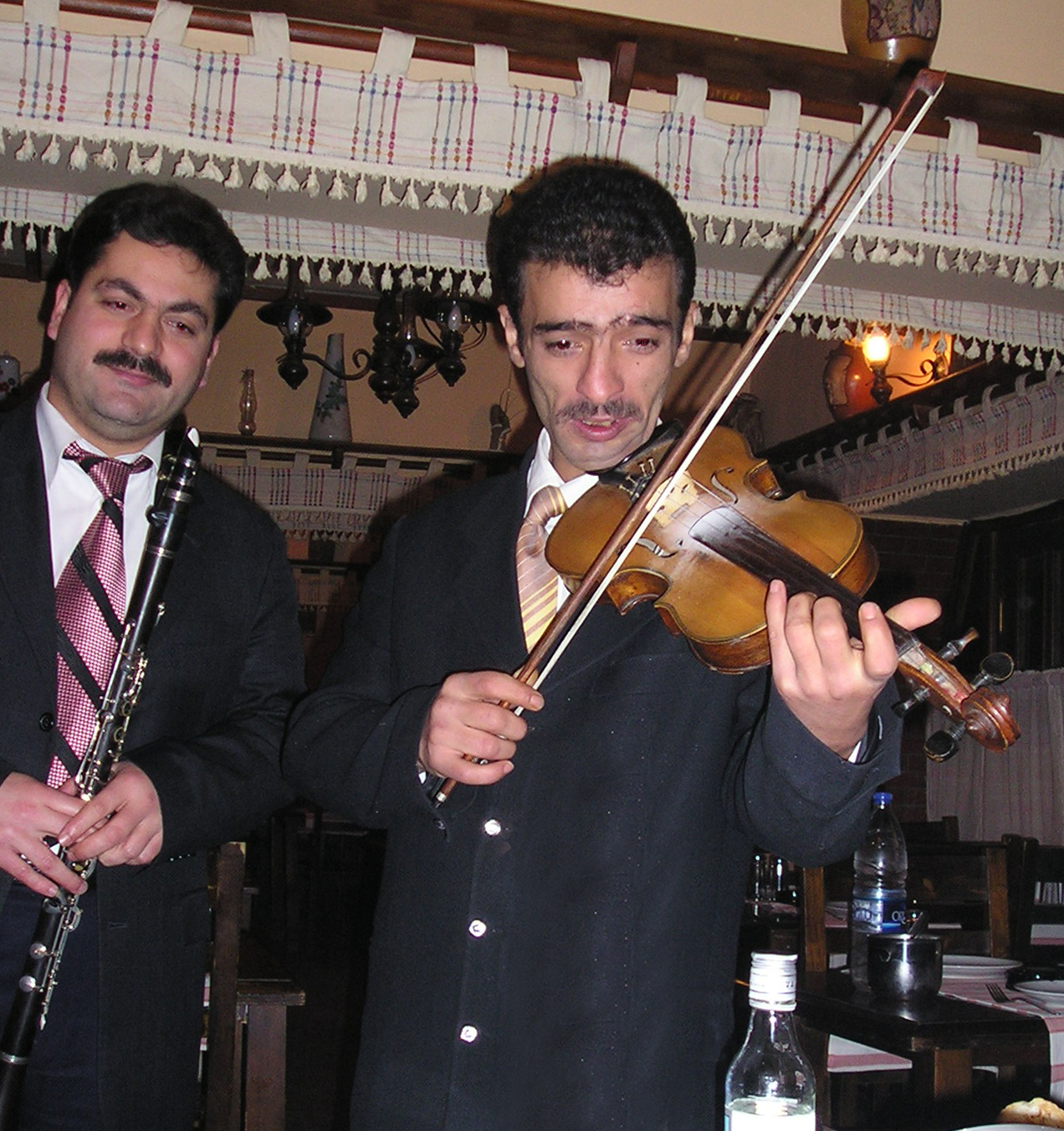 Musicians performing in an Ankara meyhane. Photo by Bertil Videt.